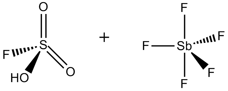 Fluorosulfuric acid + Antimony Pentafluoride